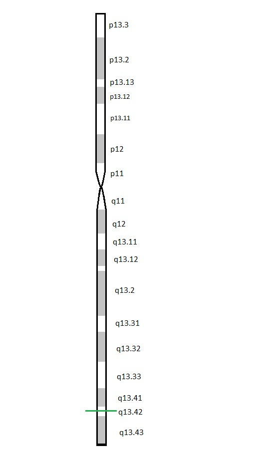 KIR2DL3 Gene in genomic location: bands according to Ensembl, locations according to GeneLoc (and/or Entrez Gene and/or Ensembl if different)